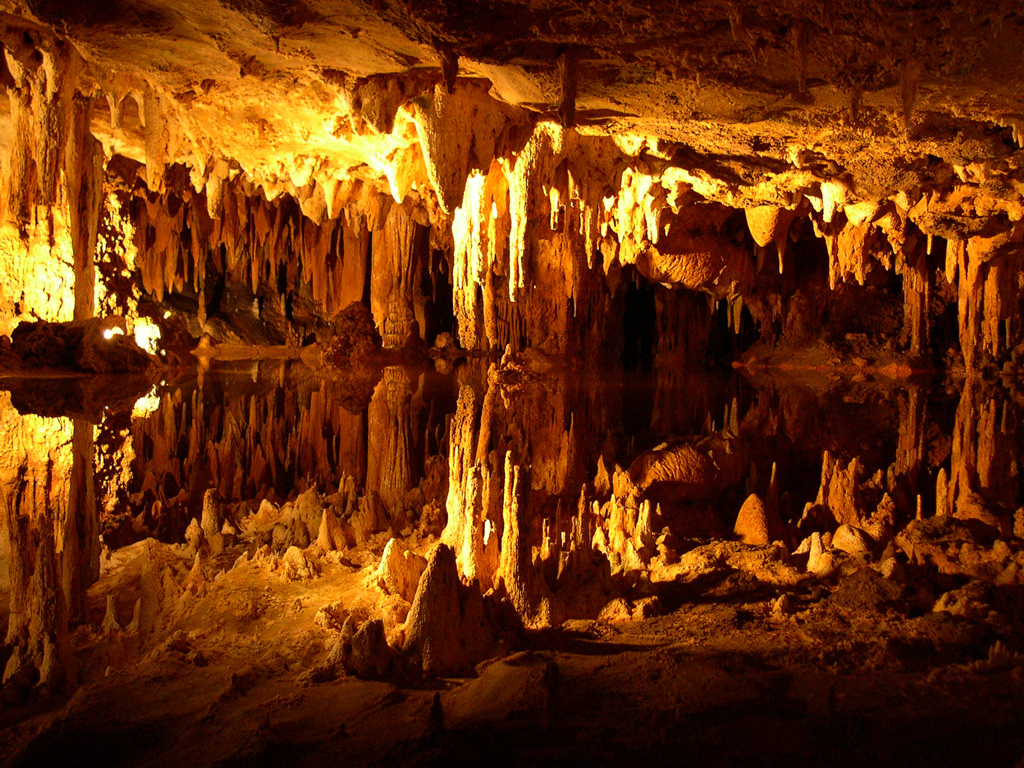 Reflecting lake in the Luray caverns in the northern Shenendoah valley. Formations were likened by our guide to various Disney characters...